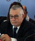 USFP Leader Abdelwahed Radi